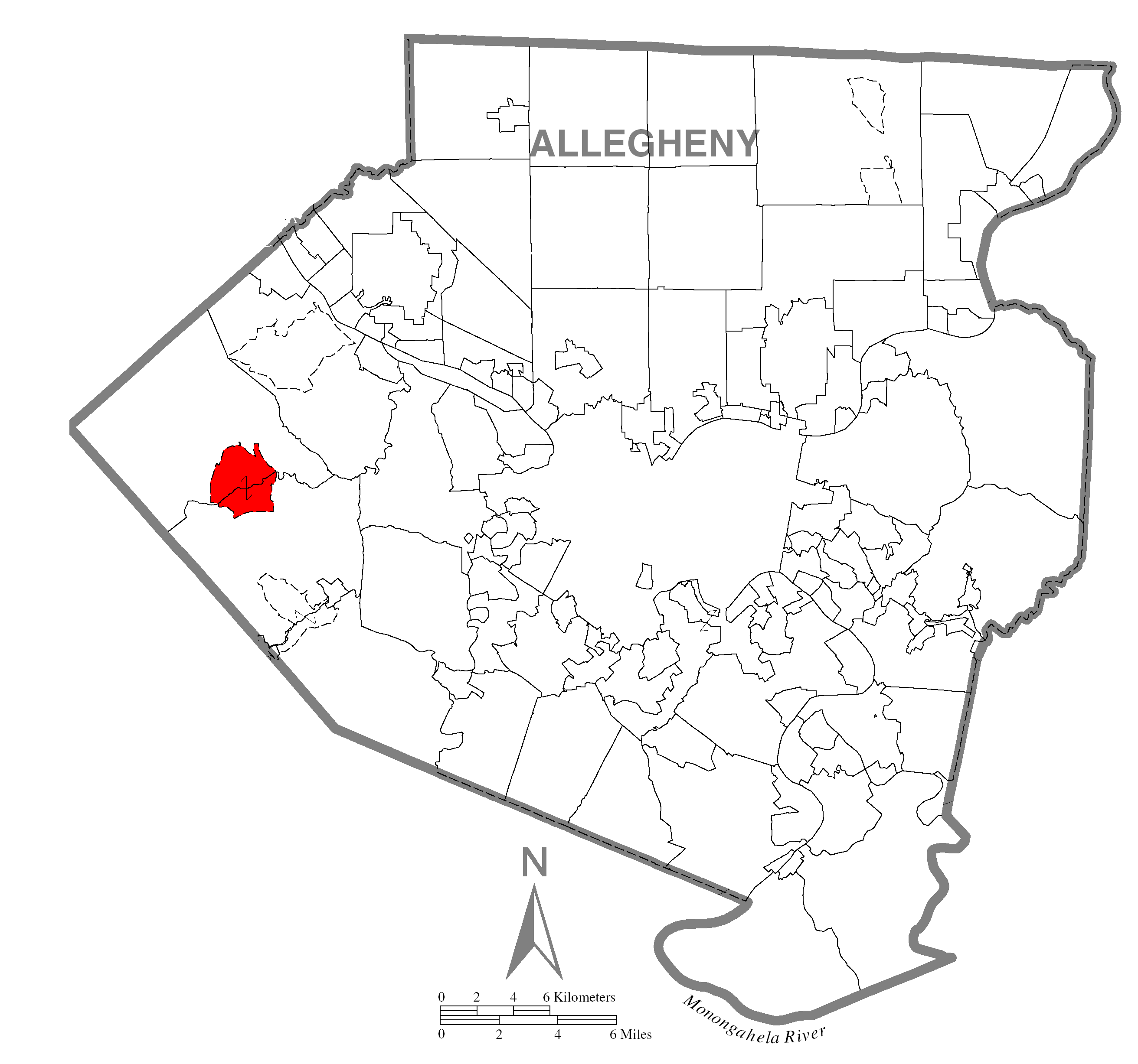 A map of Allegheny County showing Imperial-Enlow, Pennsylvania (alternate) highlighted on the map.